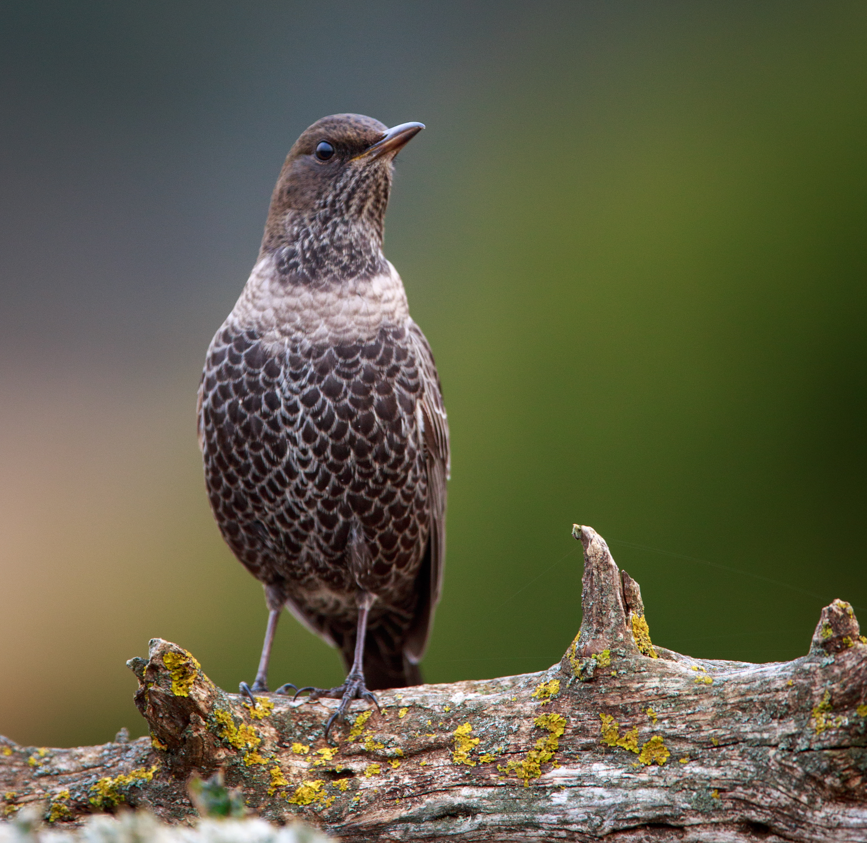 Turdus torquatus torquatus, female or 1st winter, Spain